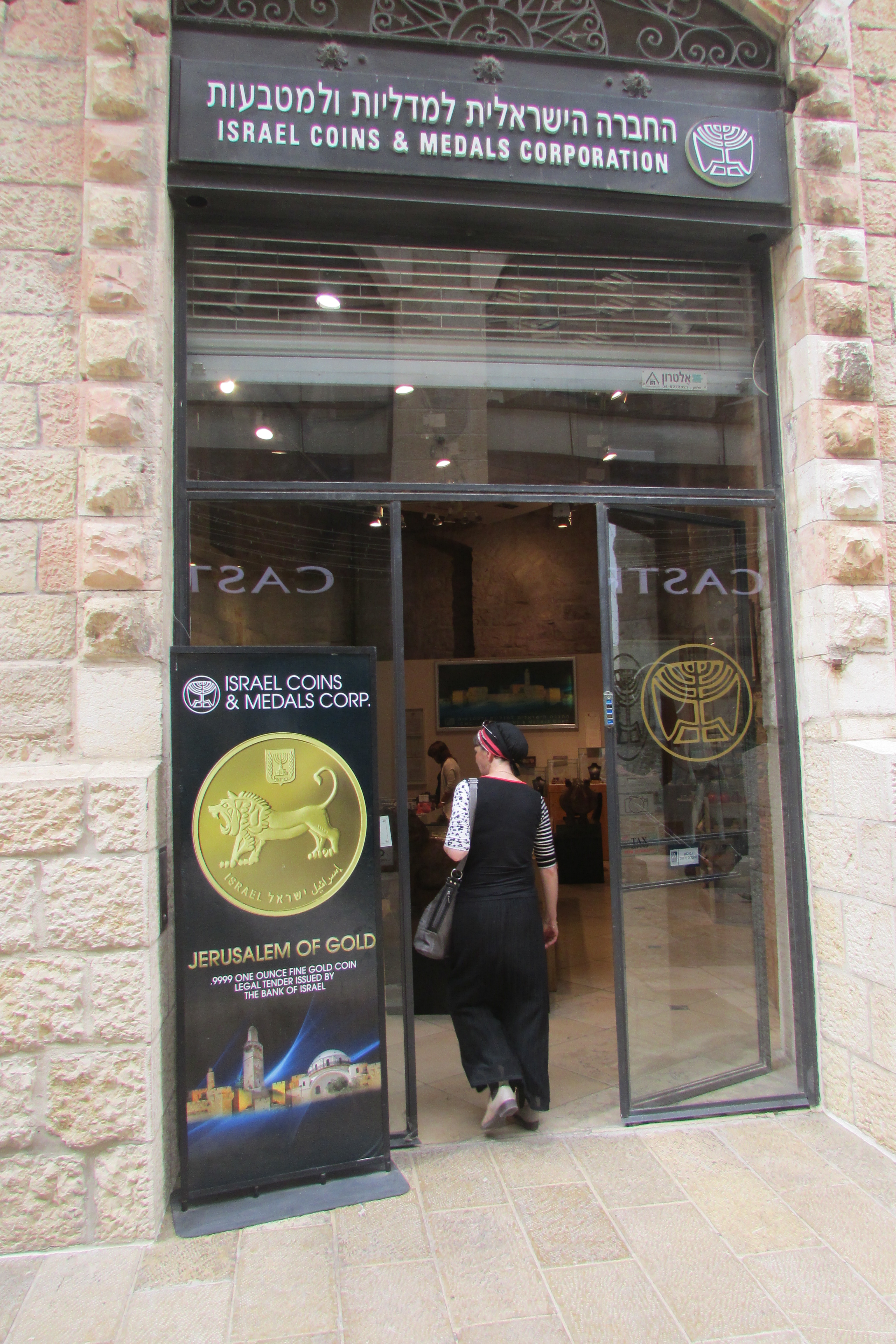 Israel Coins and Medals shop in Mammila